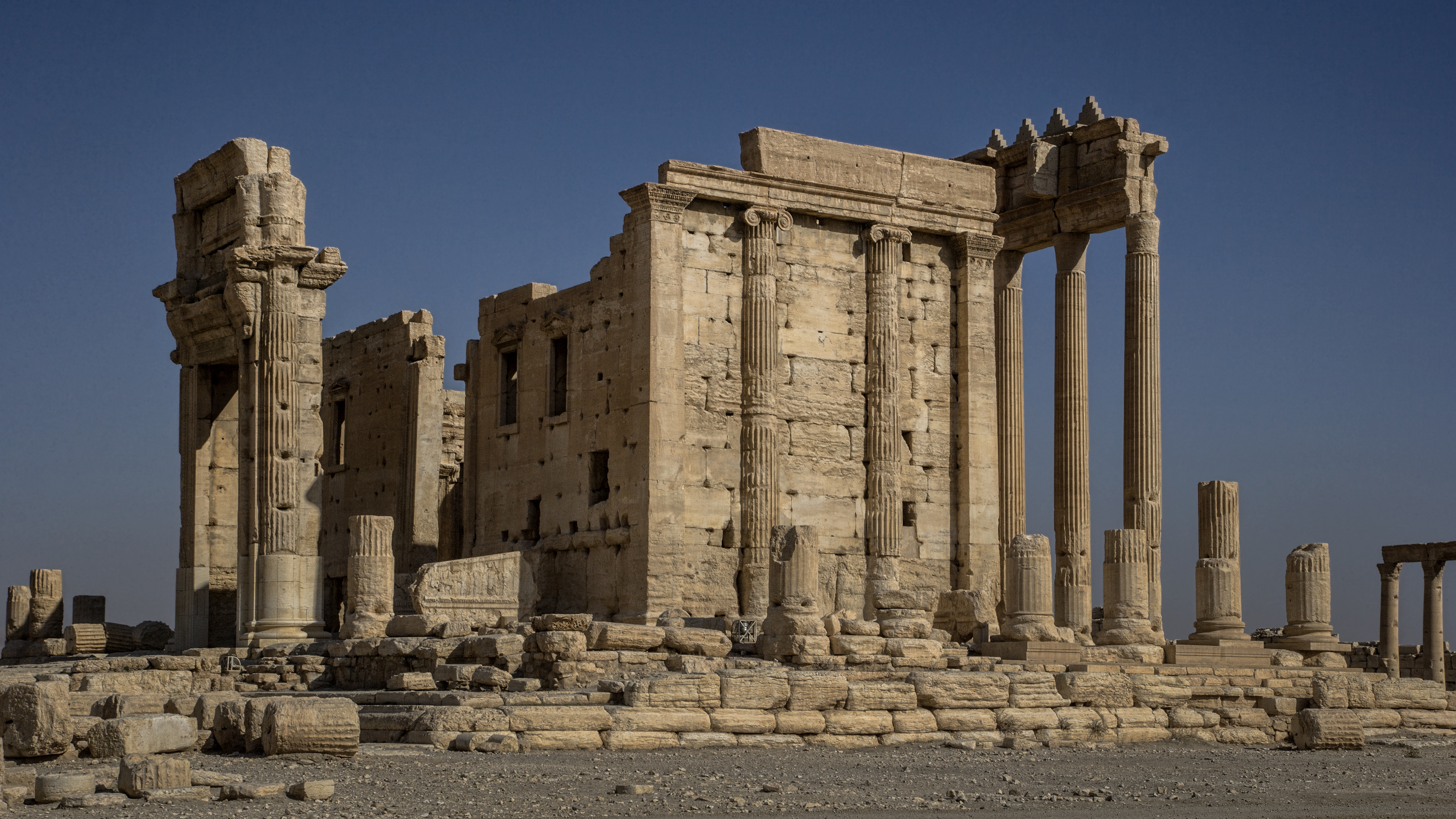 Temple of Bel, Palmyra, Syria